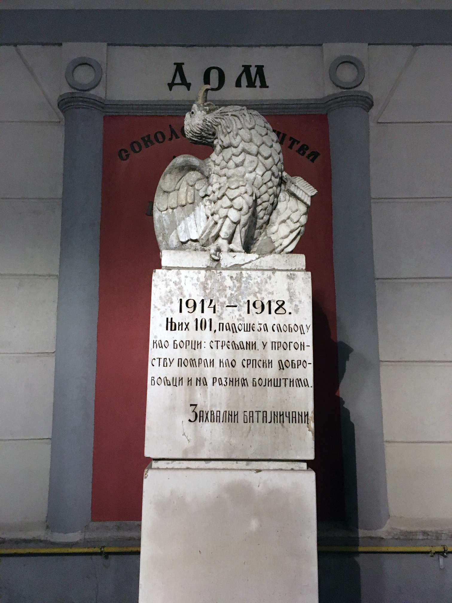 Monument to WW1 volonteers in Batajnica in front of the Sokol movement building